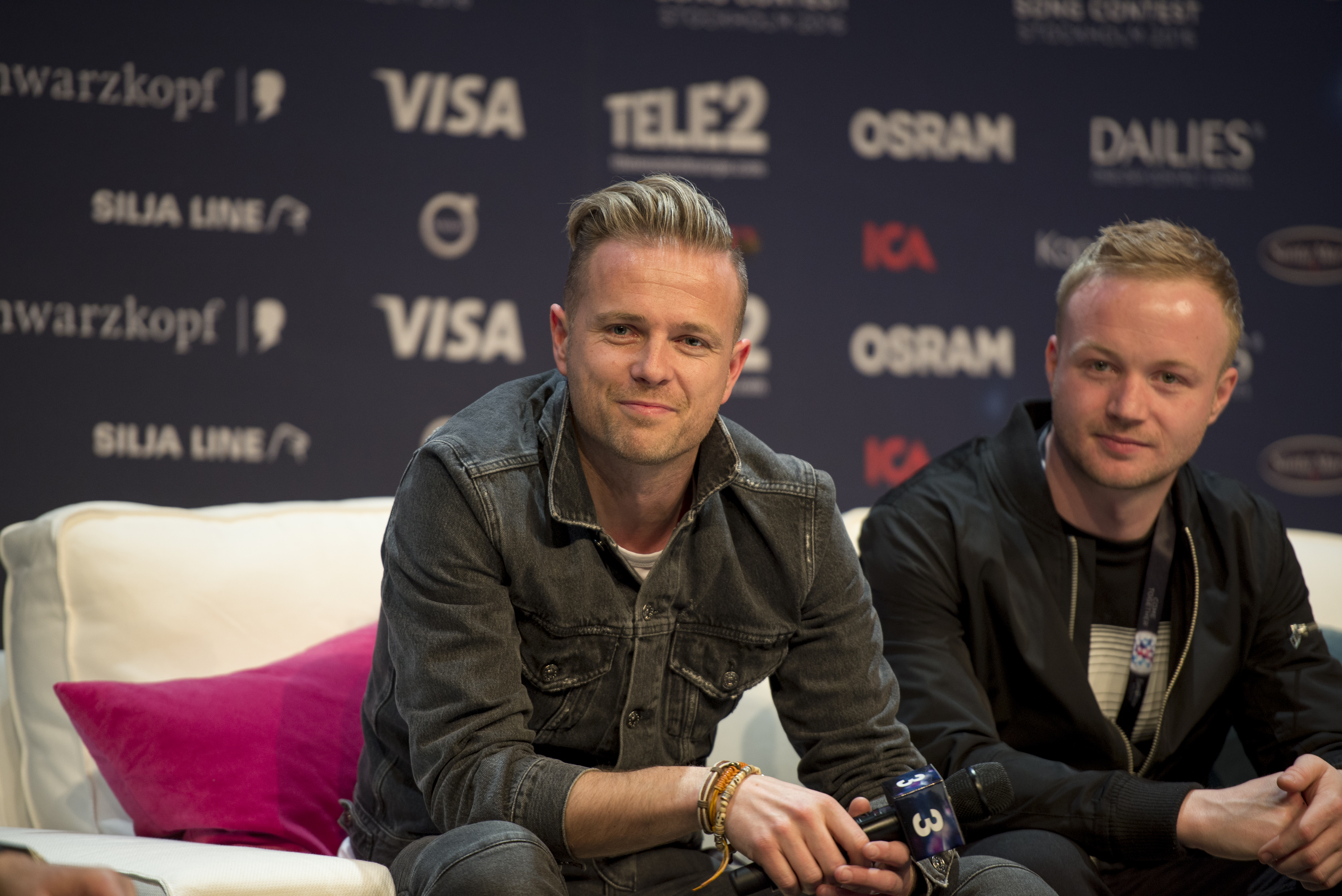 Nicky Byrne at a Meet & Greet during the Eurovision Song Contest 2016 in Stockholm. (Help translate this text)